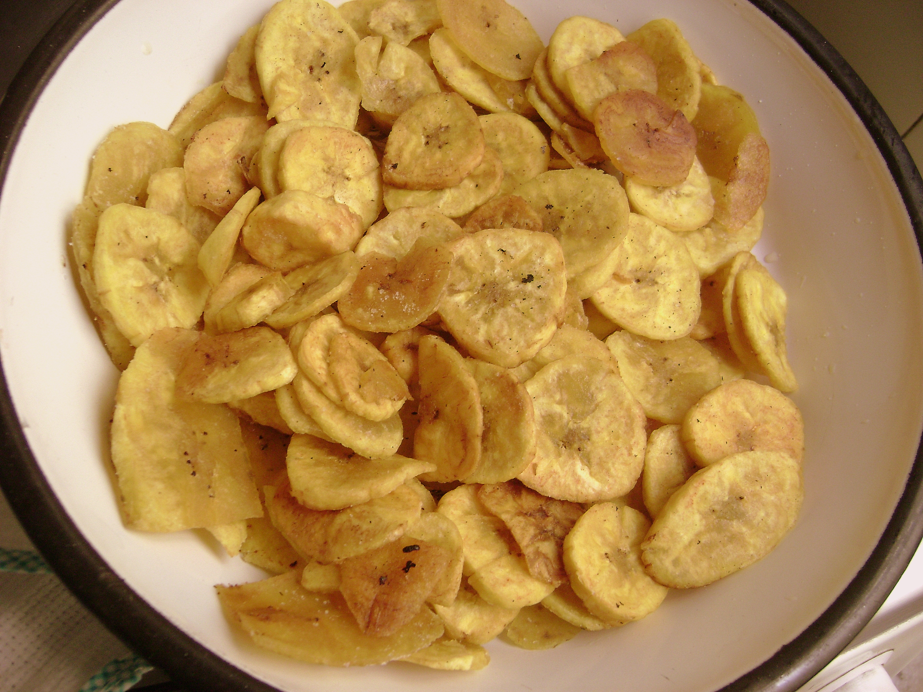 Chifles made at home. Lima, Perú.